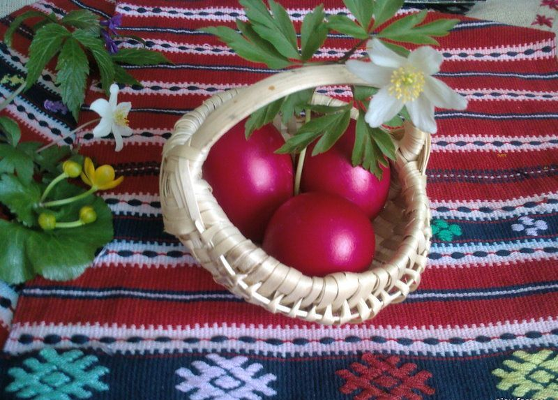 Easter eggs